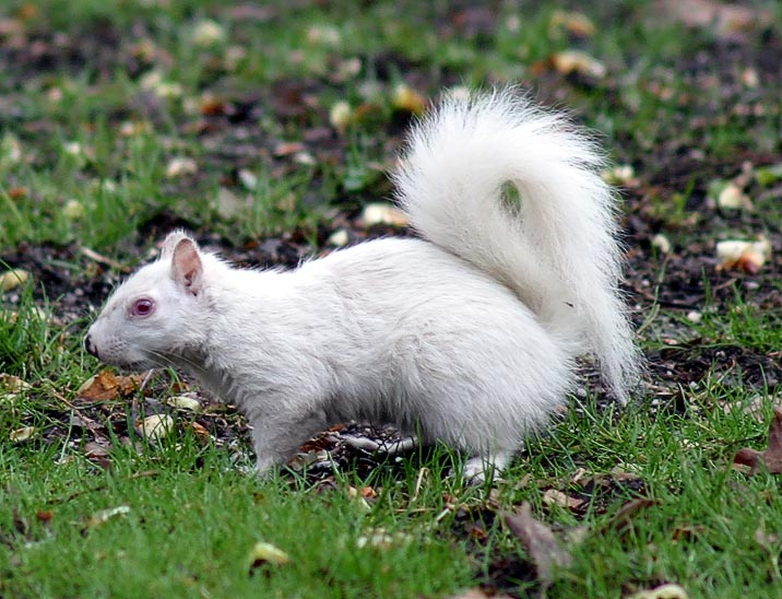 Albino Grey Squirrel - Sciurus carolinensis Taken by: Paul Henjum Location: Apple Valley Minnesota. Date: spring of 2005